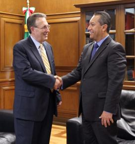 U.S. Ambassador to Mexico Anthony Wayne (left) and Mexico’s Secretary of the Interior Francisco Blake Mora (right)